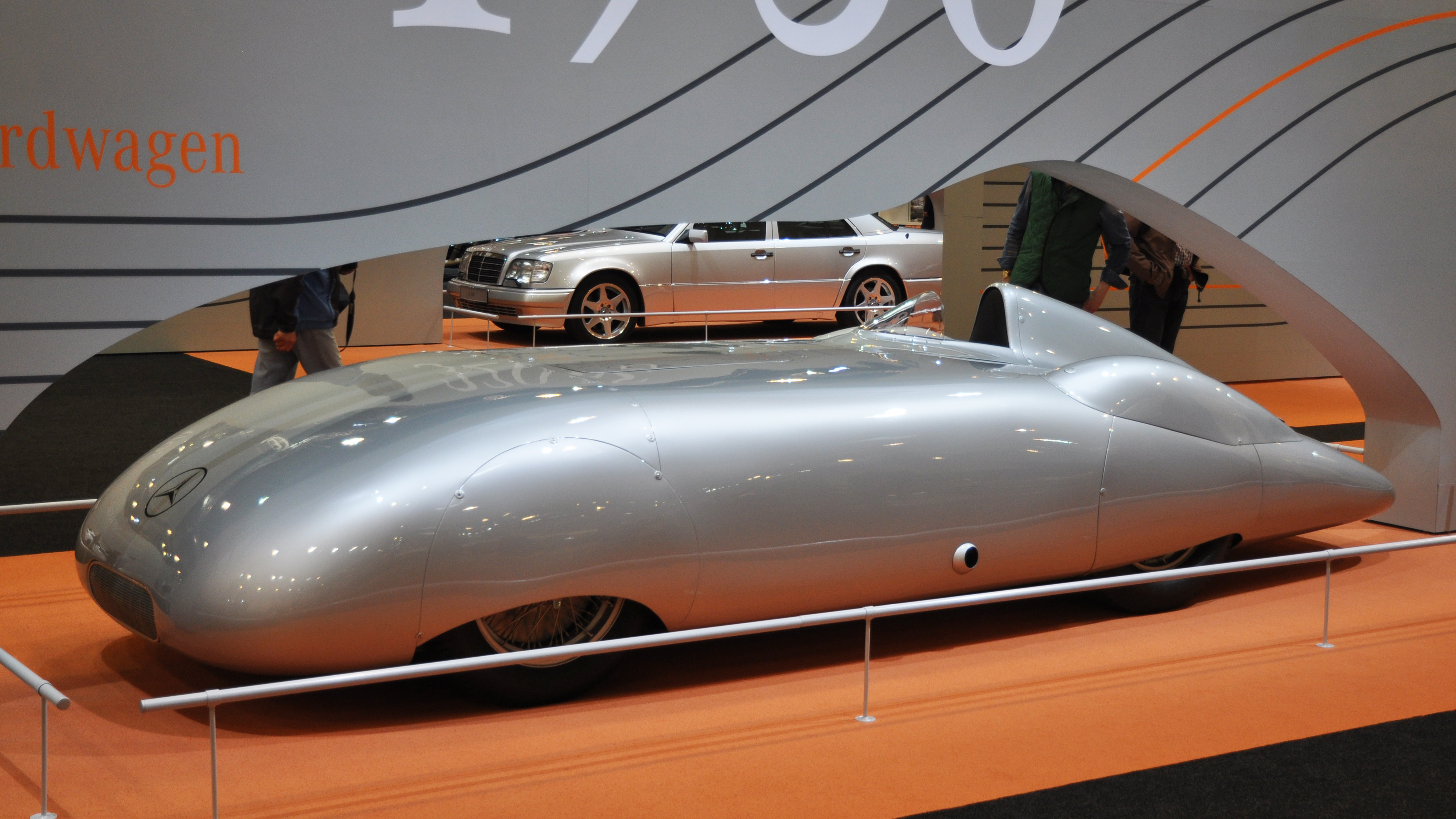 Mercedes-Benz W25 Stromlinie (1936) at Essen Technoclassica 2015